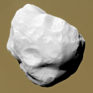 A photo taken by the Cassini spacecraft showing Saturn's moon Helene with the atmosphere of the planet in the background. The image was taken in visible light with the Cassini spacecraft narrow-angle camera. The view was acquired at a distance of approximately 19,000 kilometers (12,000 miles) from Helene.